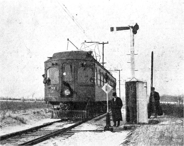 Caption: Chicago, Lake Shore & South Bend—Dispatcher's Signal and Telephone Booth at Siding